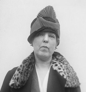 Margaret Bucknell Pecorini from Bain News Service